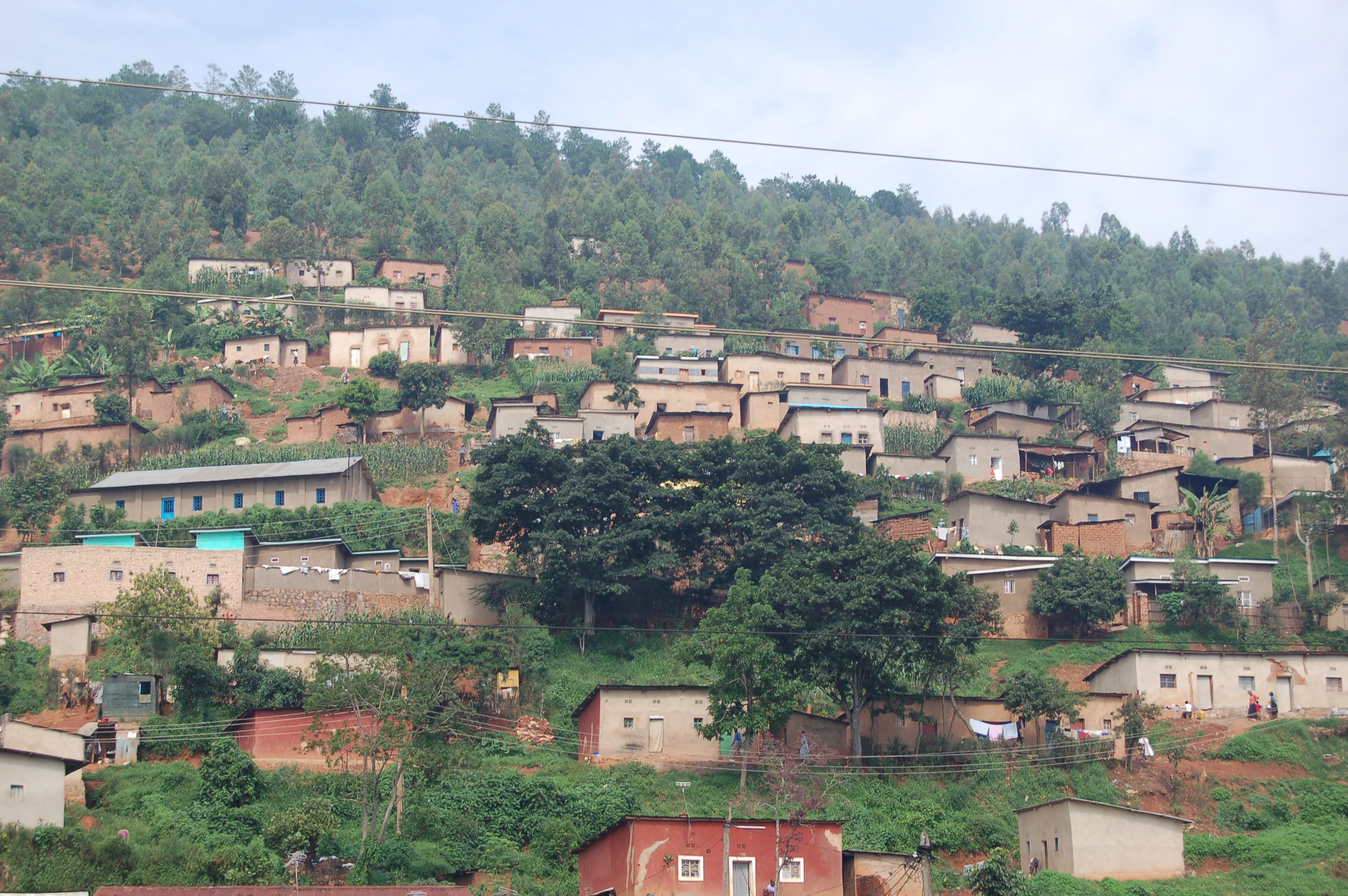 Houses on a hill slope in Rwanda